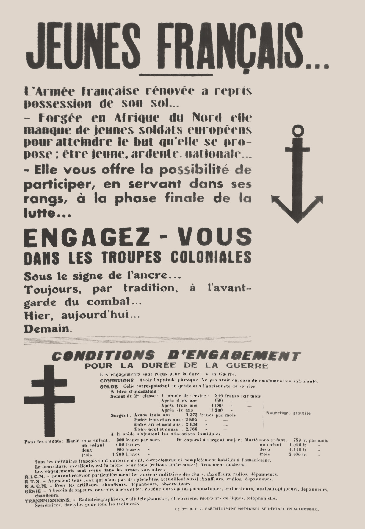 Poster inviting citizens to enlist in French Colonial Forces, after colonies of North Africa (Algeria, Tunisia) had been reconquered by the Allies in World War II. Original work by Rama